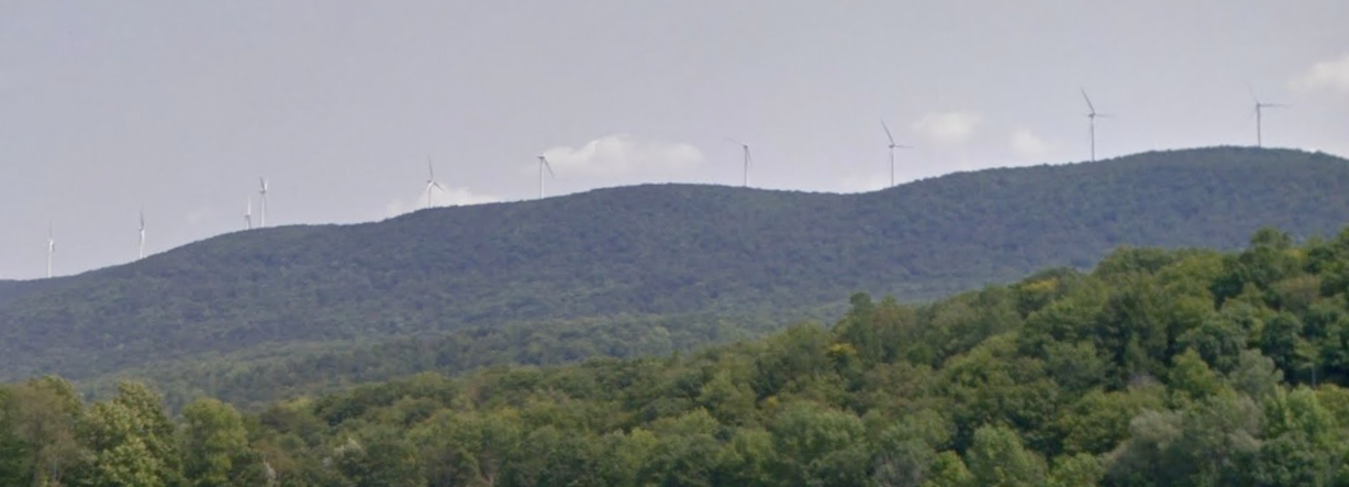 The View of the Berkshire Wind Power Project, on Brodie Mountain, from Route 43